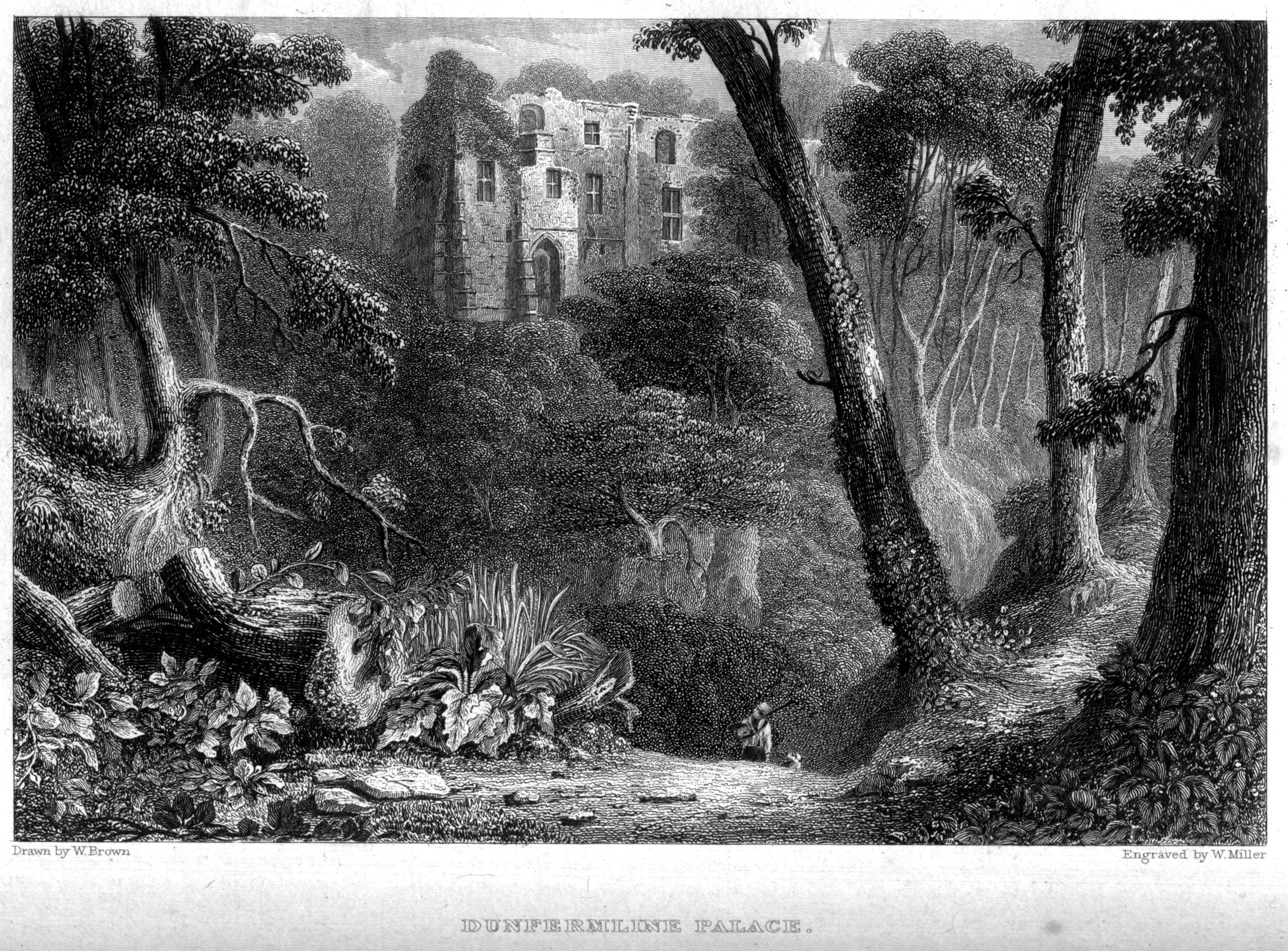 Dunfermline Palace, engraving by William Miller after W Brown, published in Select Views Of The Royal Palaces Of Scotland, From Drawings by William Brown, Glasgow; With Illustrative Descriptions Of Their Local Situation, Present Appearance, And Antiquities. John Jamieson. Cadell & Co & Simpkin Marshall, Edinburgh & London 1830